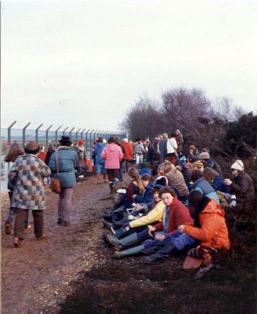 Greenham Common women's protest 1982, gathering around the base, near to Greenham, West Berkshire, Great Britain. On 12 December 1982, 30,000 women of all ages, classes and ideologies travelled from all over the UK to gather at the USAF base at Greenham Common to demonstrate against the decision to hold nuclear missiles here. Some stayed on in a Peace Camp that lasted for 19 years, others returned here again and again and many more were inspired to support the peace movement in different ways. The protest is part of history now, see Link [NB I cannot locate this photograph precisely.]